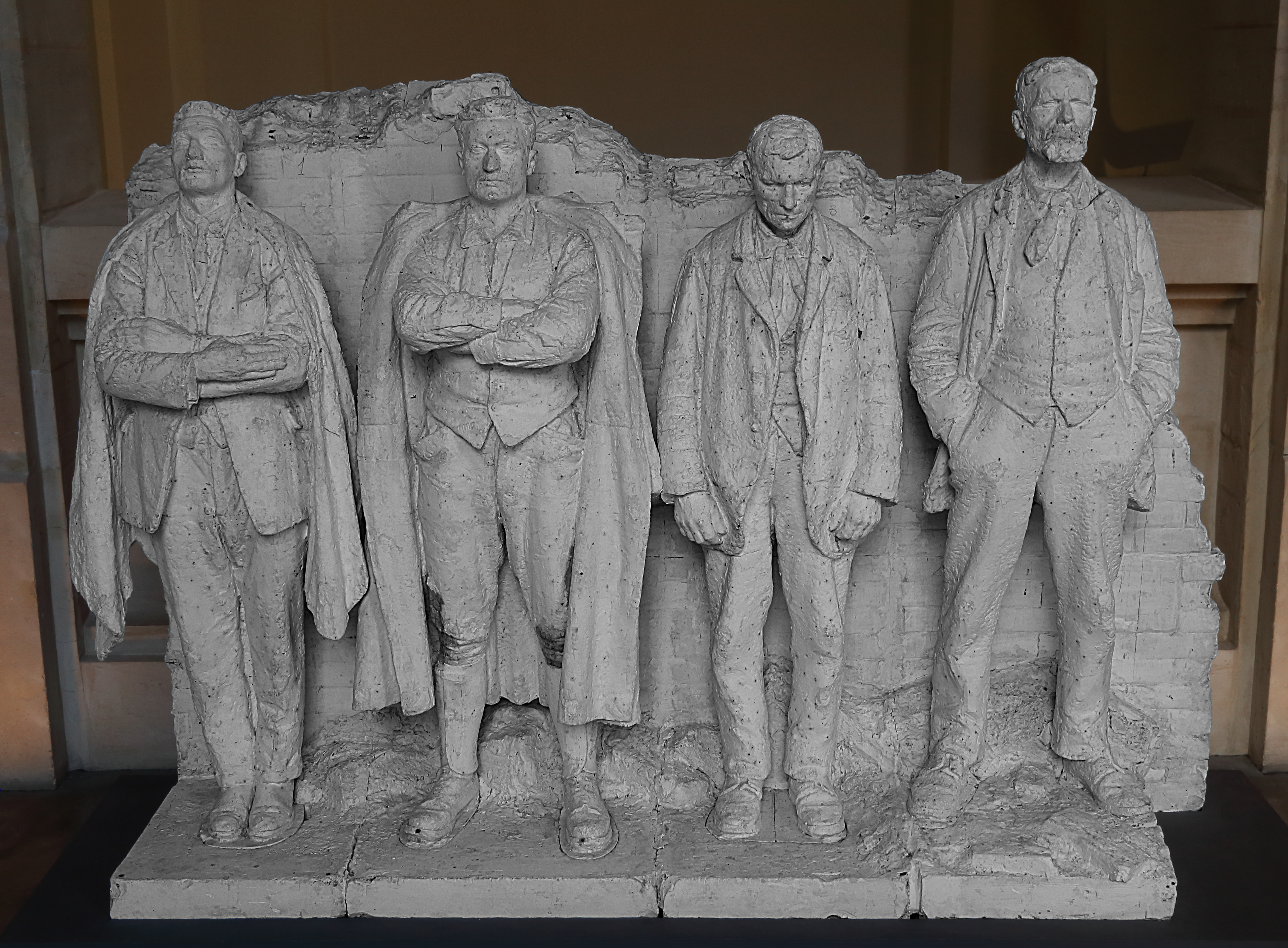 Félix-Alexandre Desruelles - Monument aux Fusillés, (plaster) 1924. Picture taken at the Palais des Beaux-Arts de Lille, France.